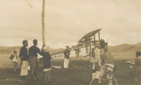 Michael Leahy is making a movie of the plane Canberra and preparations are being made for the walk to Mt. Hagen, Central New Guinea in 1933.